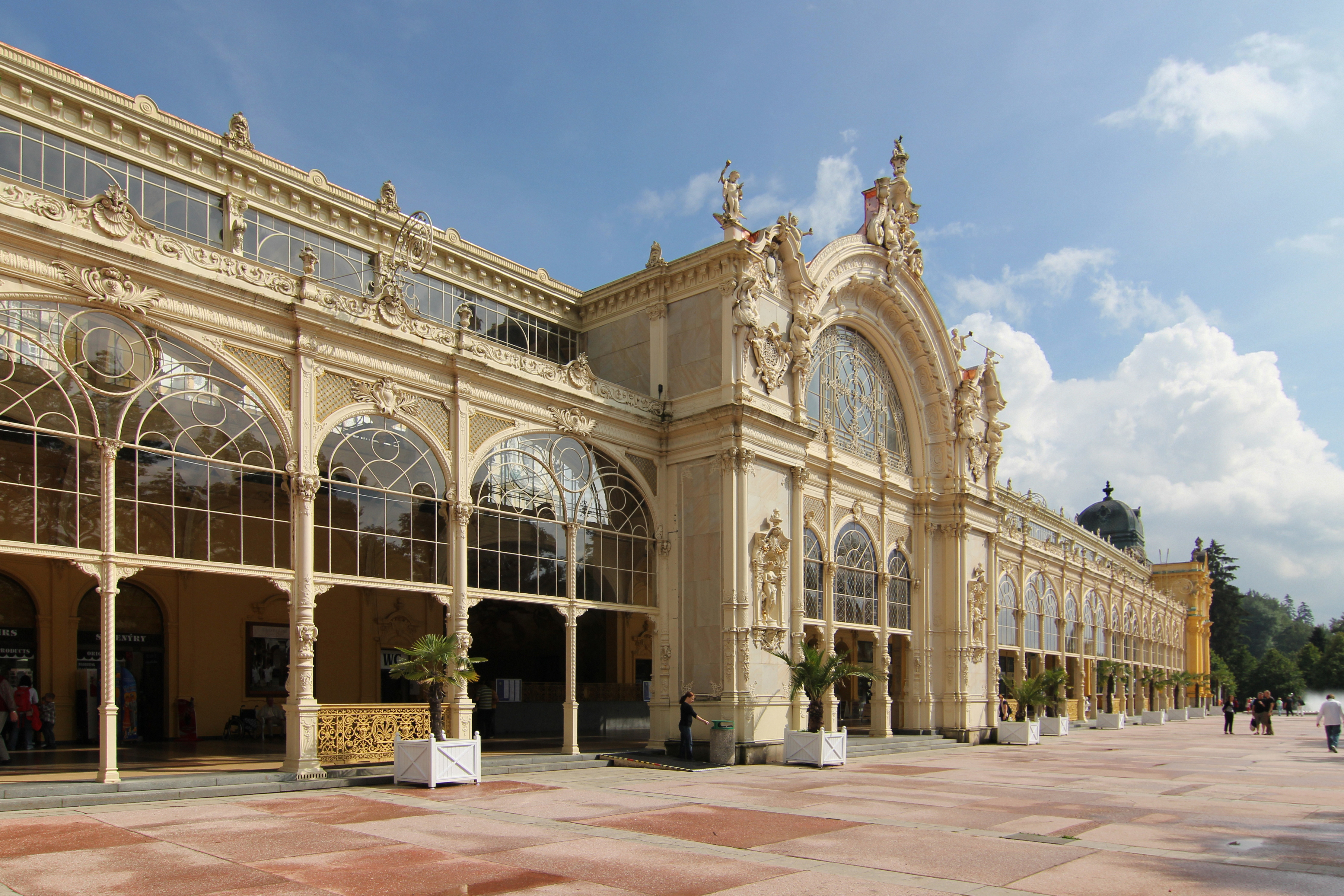 The entrance to the Main or Cast-iron Colonnade in Mariánské Lázně in the Czech Republic.